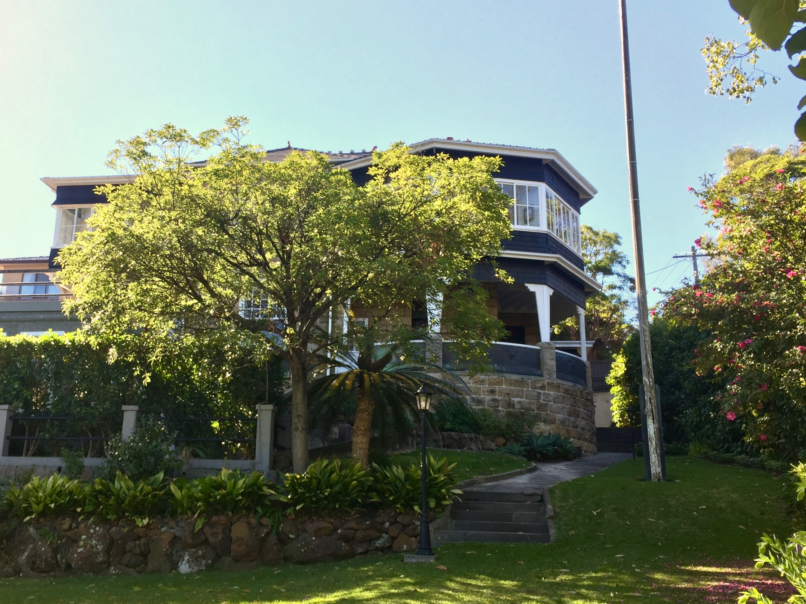 The Dalkeith Property or simply Dalkeith, is a heritage-listed former meditation centre, residence and Norwegian Seamen's Church, and now residence at 8 Bannerman Street, Cremorne, North Sydney Council, New South Wales, Australia.